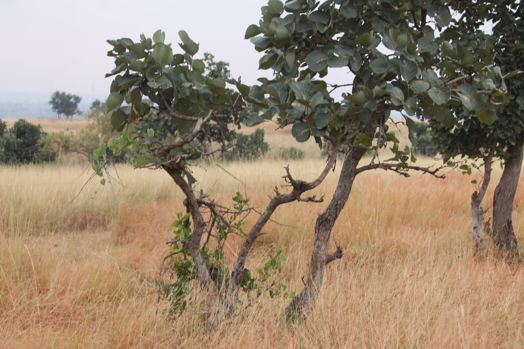 Karanja-Sohol Abhayaranya Karanja Lad in Maharashtra in India